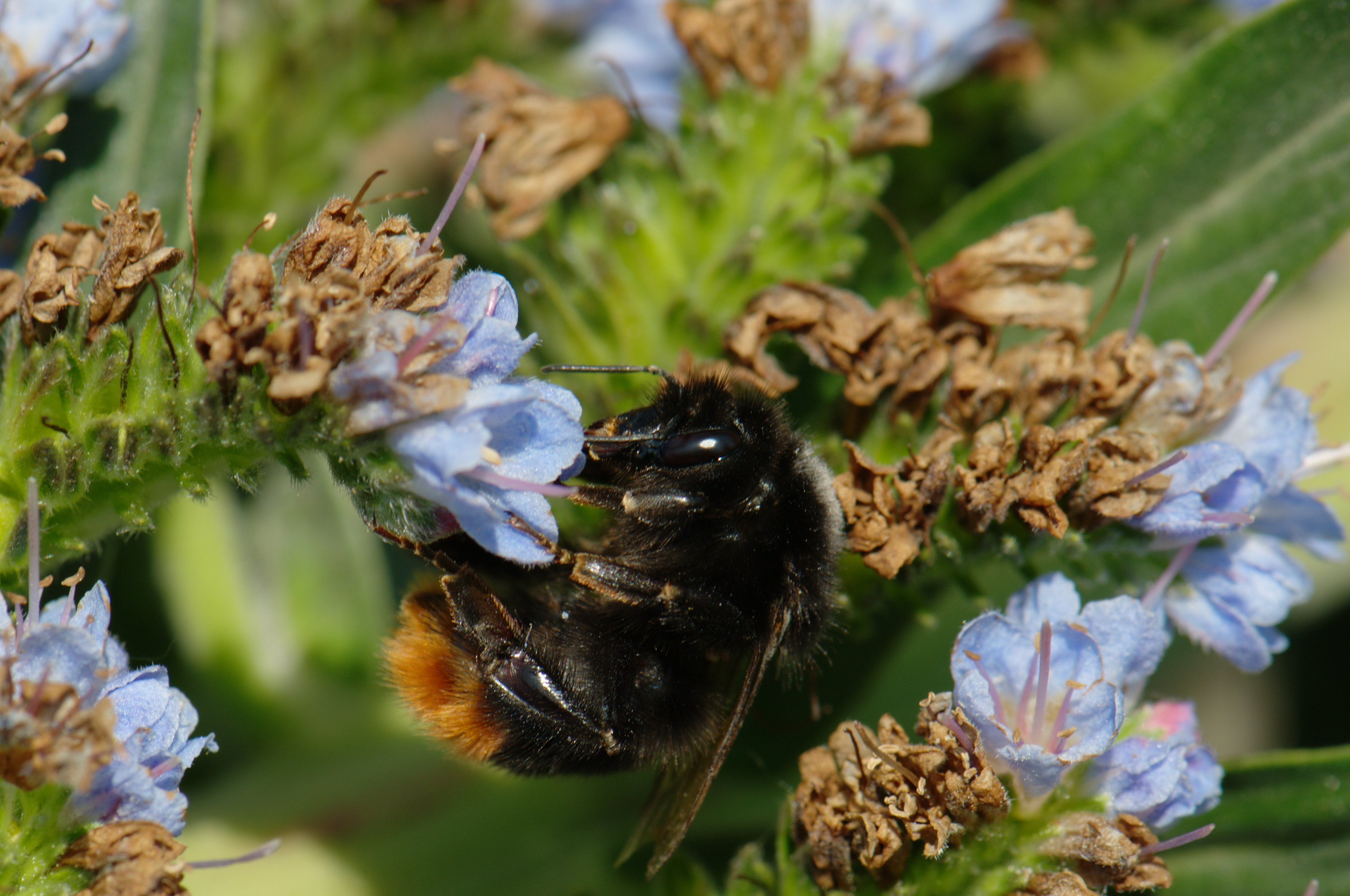 Bombus confusus, male Found in Vence, Alpes-Maritimes, France (Nearby Nice, Cannes). Mediterranean climate. Height : 317 m N: 43°43.53 E 7°06.66.